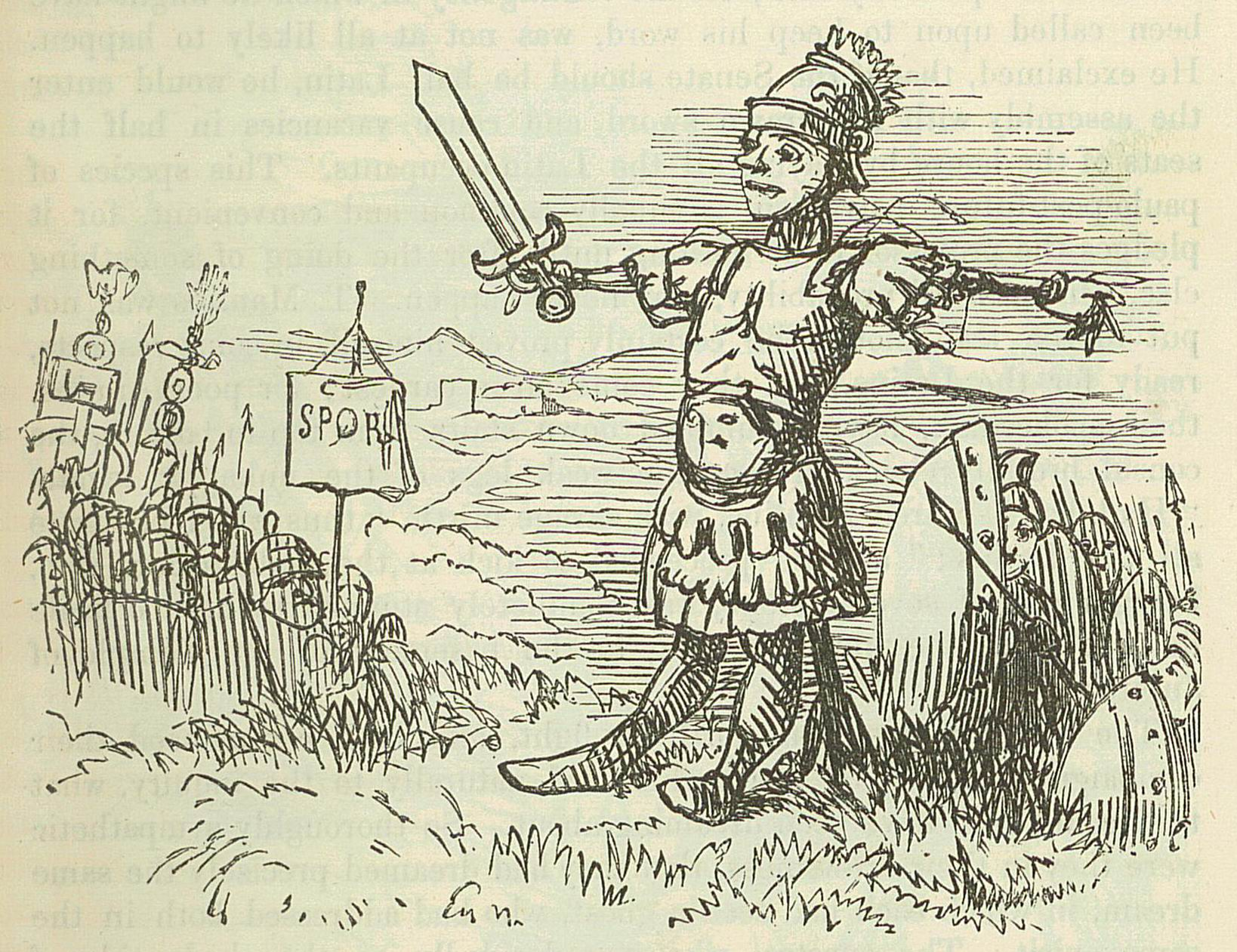 Image by John Leech, from: The Comic History of Rome by Gilbert Abbott A Beckett. Bradbury, Evans & Co, London, 1850s A Scare-crow